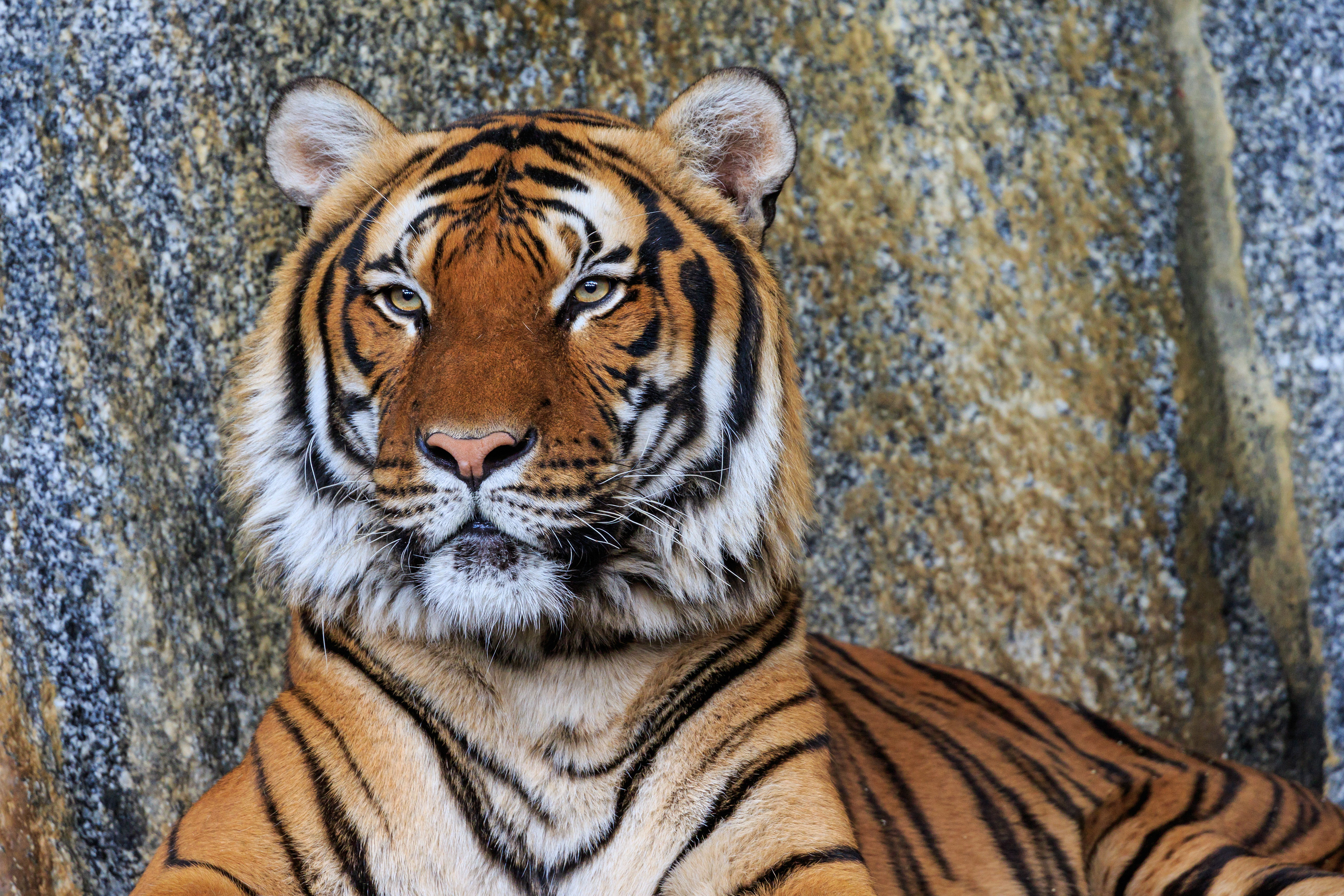 An Indochinese tiger in the Berlin Tierpark (Friedrichsfelde zoo)